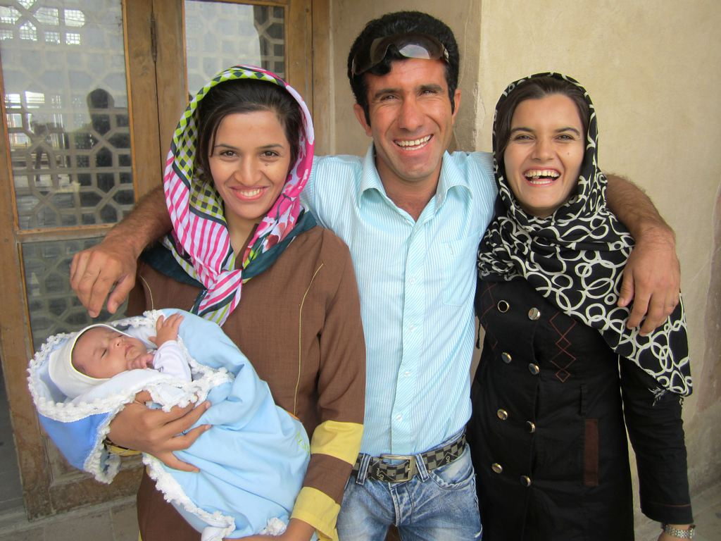 Three generations of Iranians visiting the Ali Qapu Palace in Isfahan, Iran.